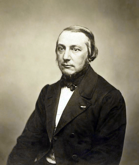 Edouard Filhol (1814-1883) – Professor of Chemistry, Director of the Museum of Toulouse, Mayor of Toulouse. Author: unknown Source: Library and Documentation Service Museum of Toulouse